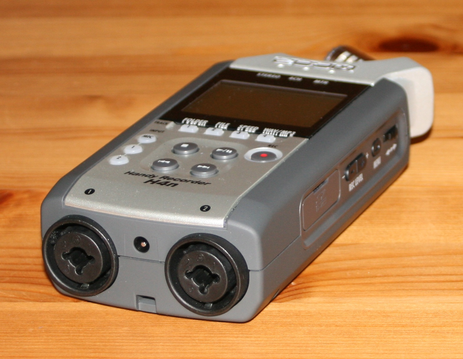 Zoom H4n digital audio recorder, bottom view. Microphone XLR inputs, which double as 1/4 inch musical instrument inputs.